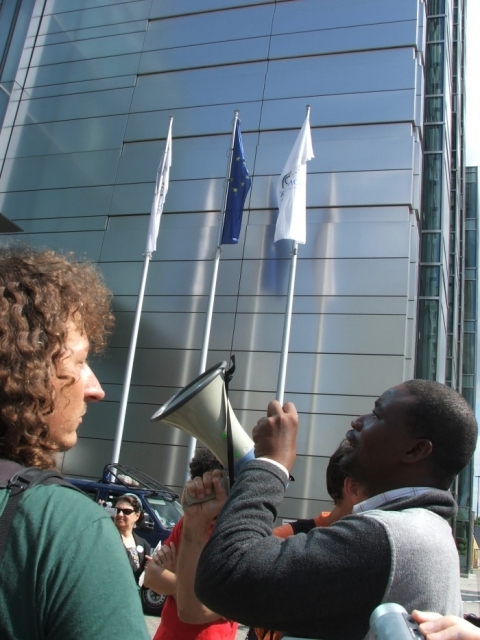 Shut Down FRONTEX demonstration 2008 in Warsaw